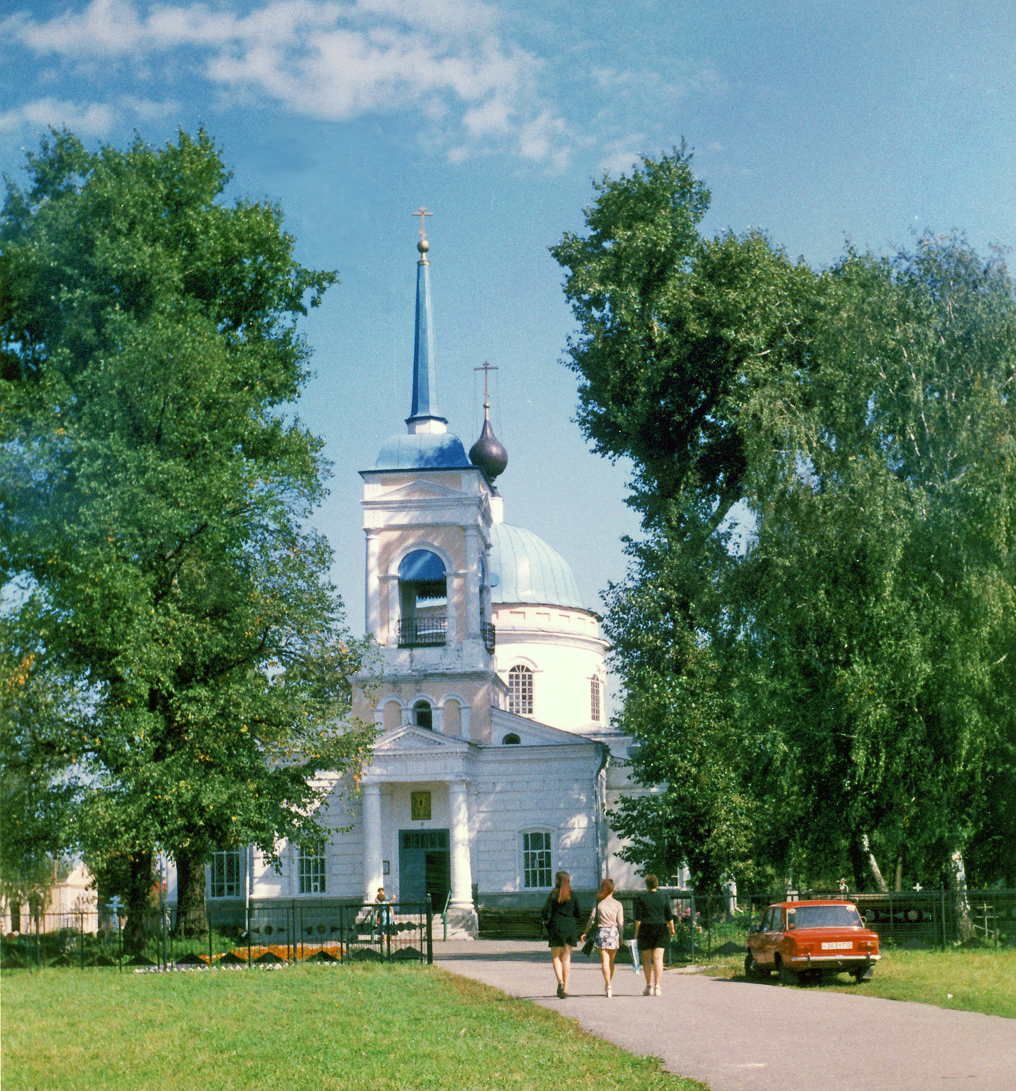 Gorodets, Church of the Protection of the Theotokos.